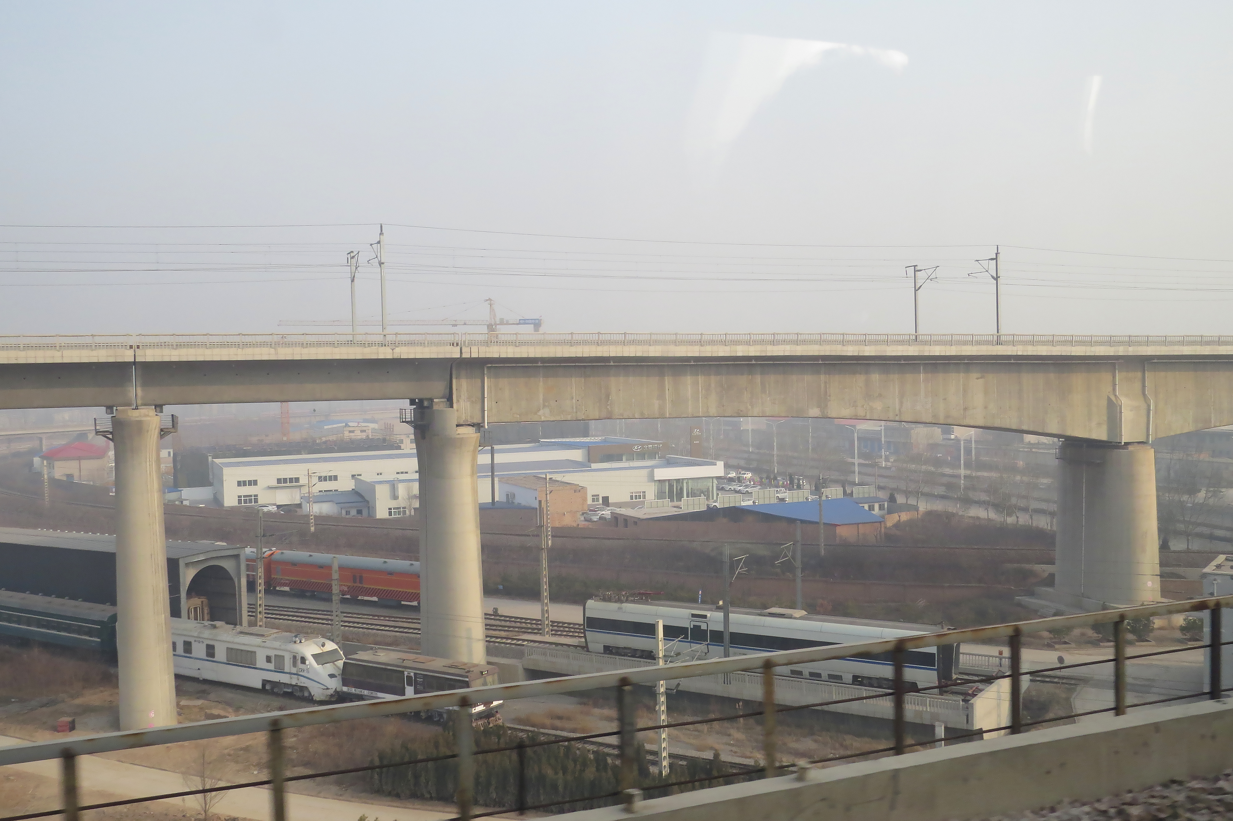 Taken from Z70. Oops, something strange here? A CRH1 carrige, and a fake CRH?! The "fake CRH" is actually the power car of the NYJ1 DMU, and the CRH1 carrige could be CRH1-046B, which was written off in the 2011 Wenzhou Train Collision that killed 40.